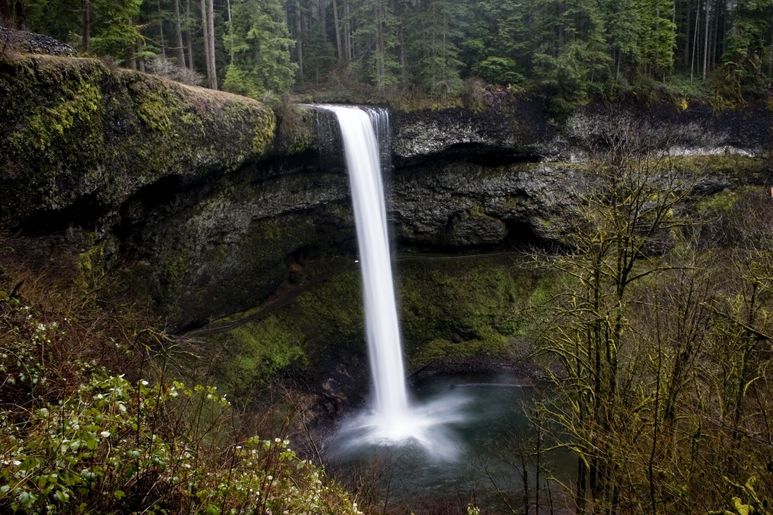 South Falls on South Fork Silver Creek at Silver Falls State Park, Marion County, Oregon, United States